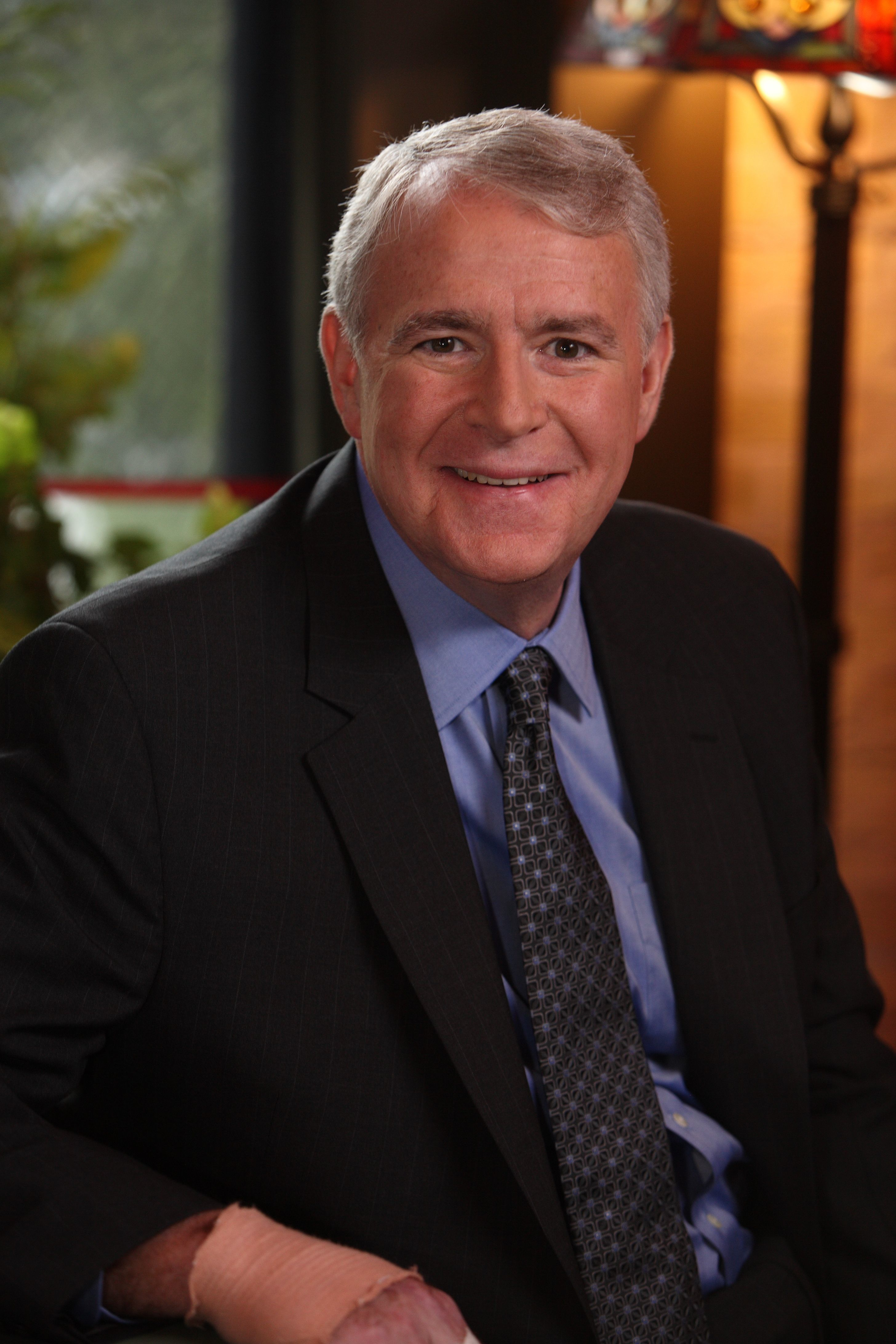 Milwaukee Mayor Tom Barrett